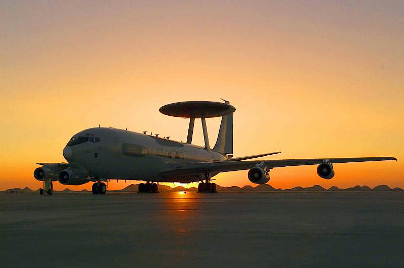 About 45 people deployed from Tinker Air Force Base, Okla., are working together at a forward-deployed location to ensure the E-3 Sentry, better known as the Airborne Warning and Control System aircraft or AWACS, is ready to launch within an hour if needed.